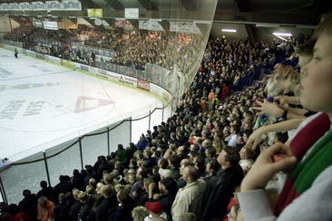 Photographer: unknown